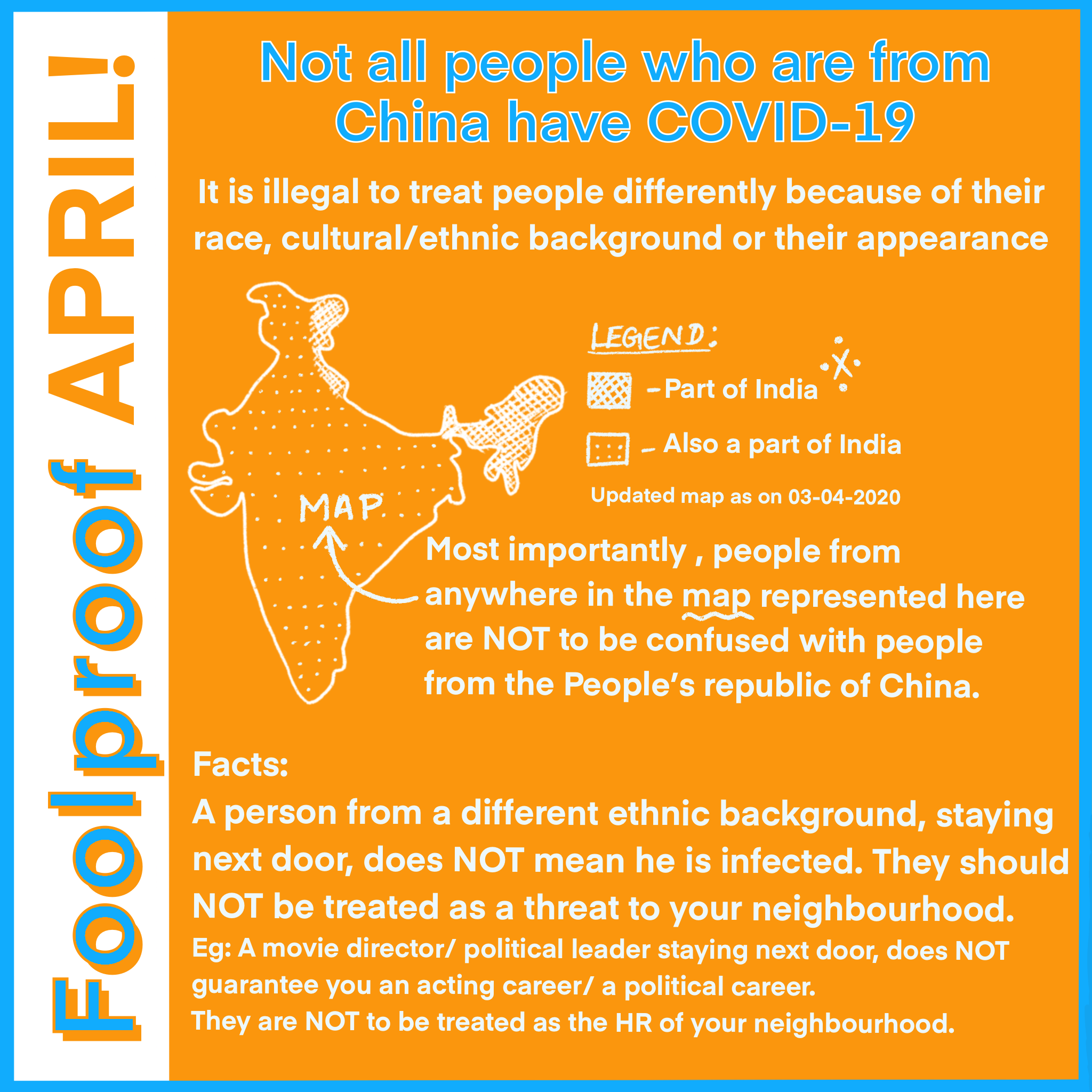 Foolproof April series- busting novel corona virus/Covid-19 myths- Image3